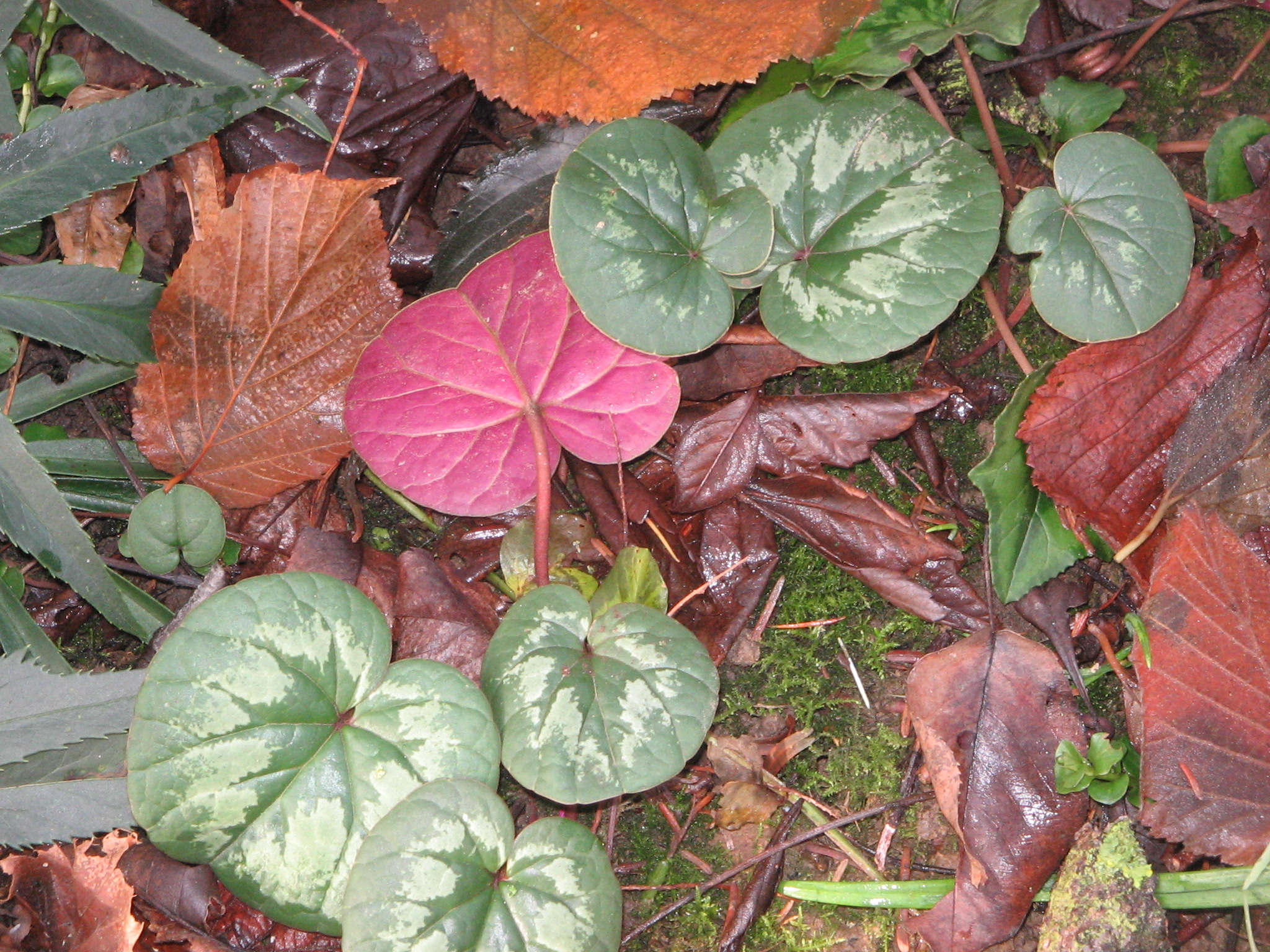 Cyclamen coum leaf